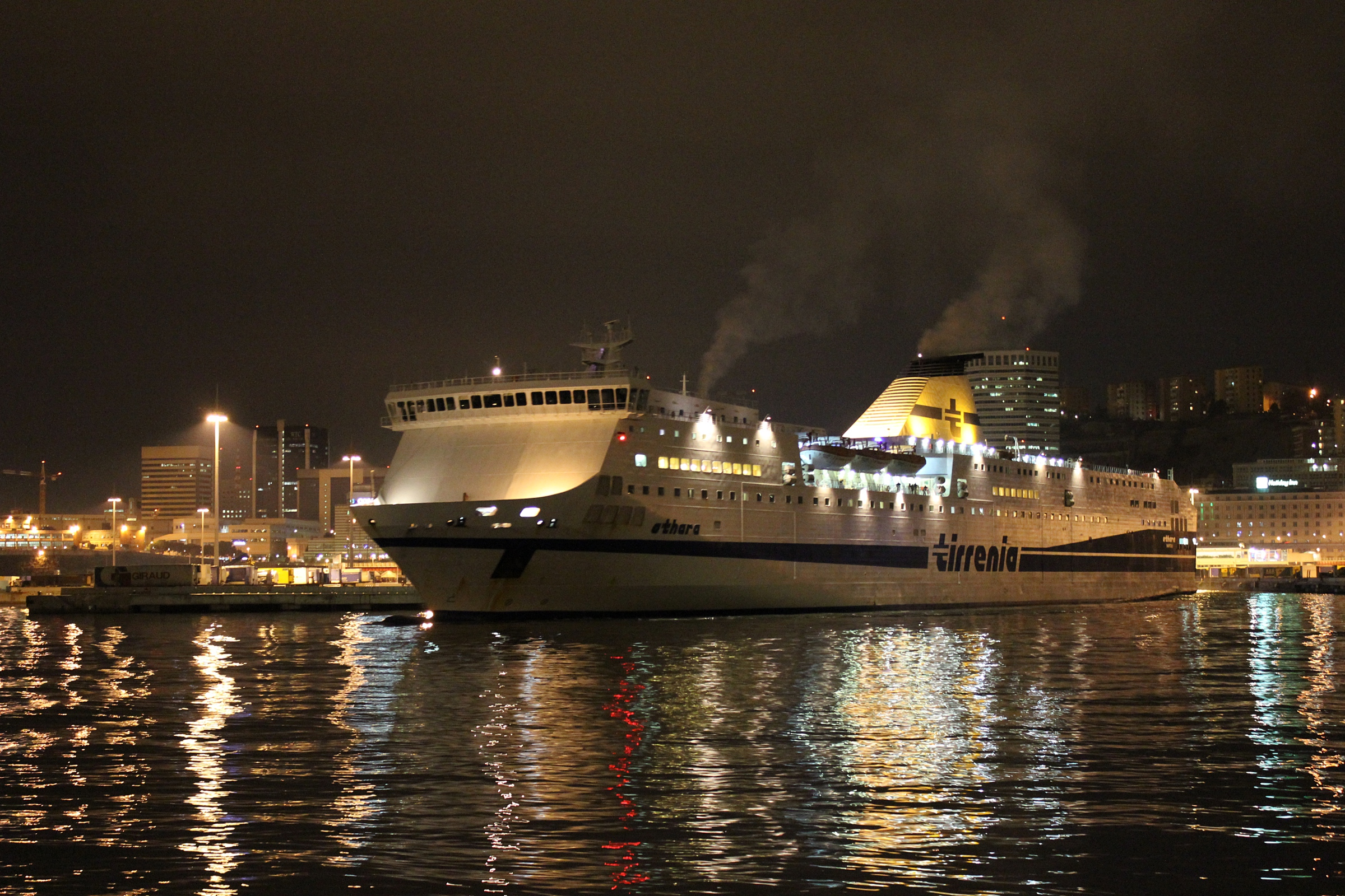 Ferry "Athara" departing from Genua's harbour